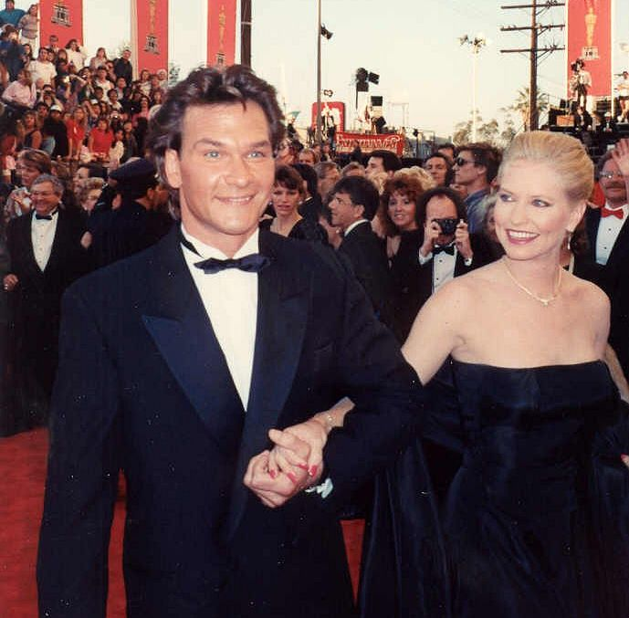 Patrick Swayze and his wife, Lisa Niemi on the red carpet at the 1989 Academy Awards, March 29, 1989